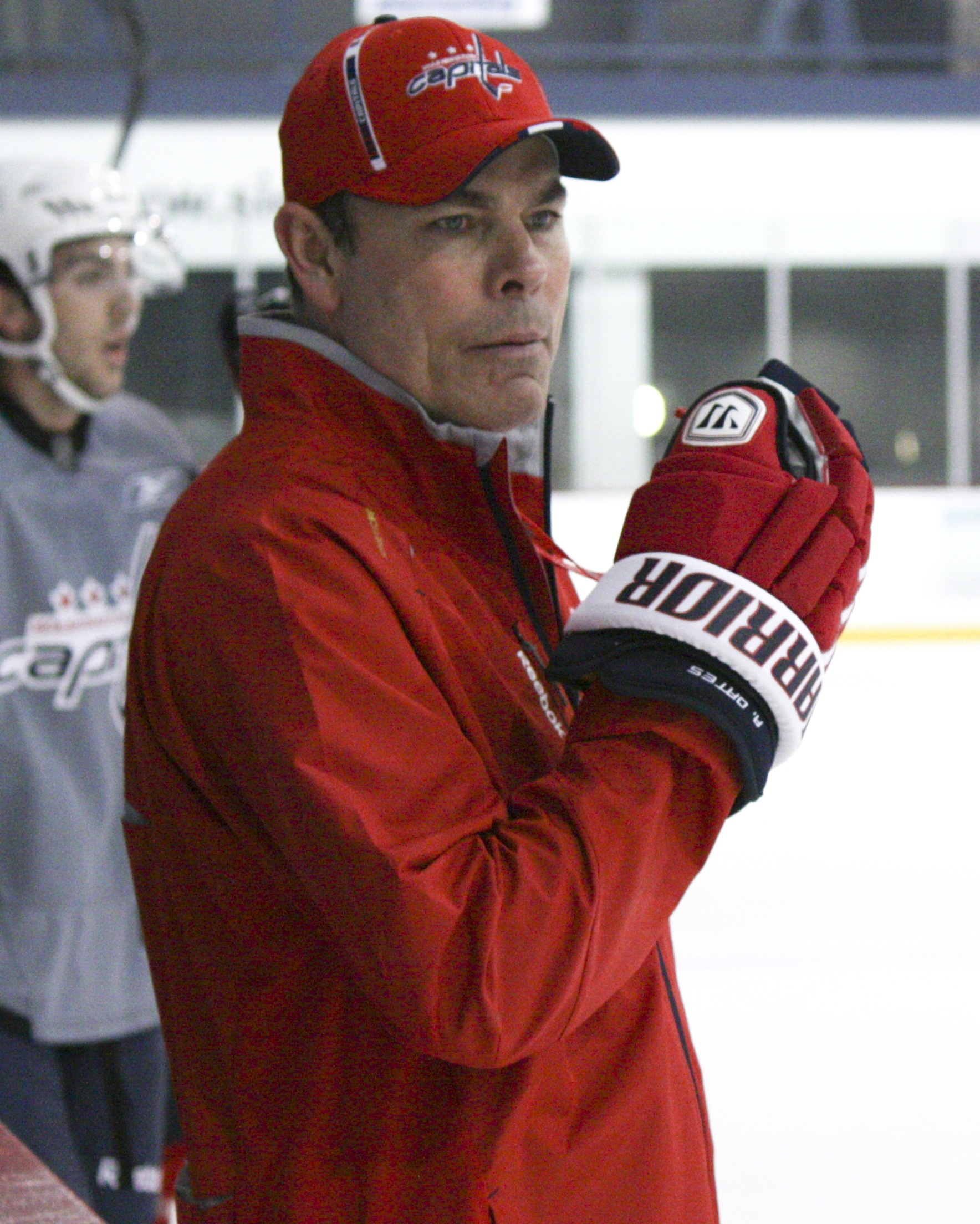 A cropped version of File:Adam Oates in 2012.jpg